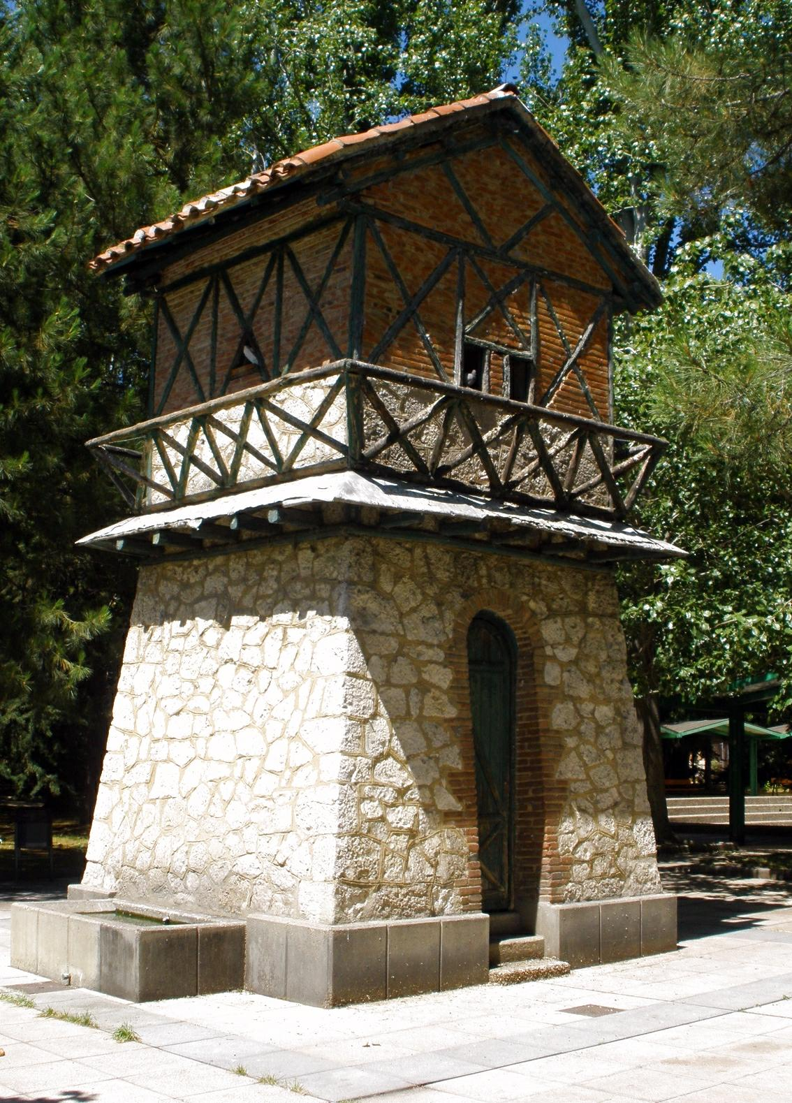 Palomar en los Jardinillos de la Estación de Palencia (España)